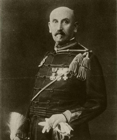 J.P. Michielsen